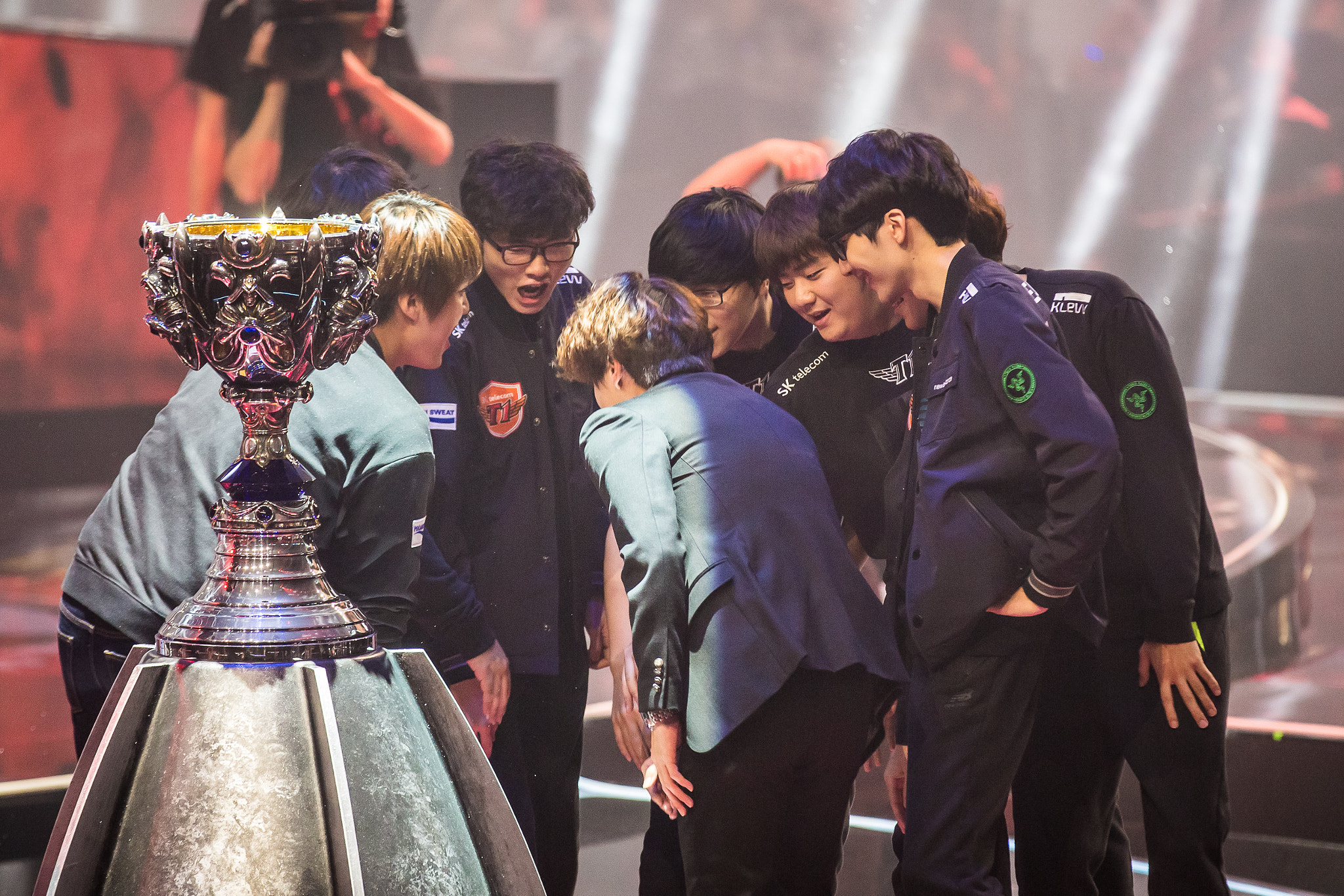 Players for SK Telecom T1 huddled near the trophy for the 2015 League of Legends World Championship 500px provided description: 1cun0598 Jpg [#lol ,#final ,#s5 ,#Berlin ,#Final]